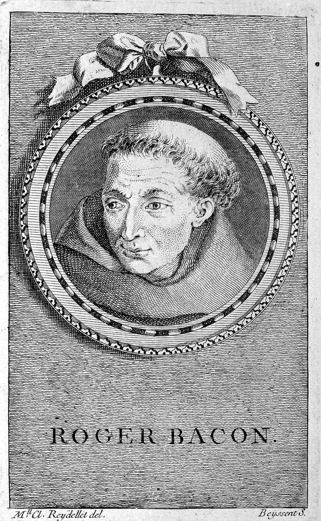 Portrait of Roger Bacon Iconographic Collections Keywords: Roger Bacon; C. Reydellet; S. Beyssent